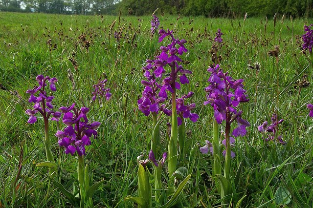 Green Winged Orchids. One of the reasons 150006 was saved as a wildlife reserve is the colony of Green Winged Orchids 790838 that bloom each spring.